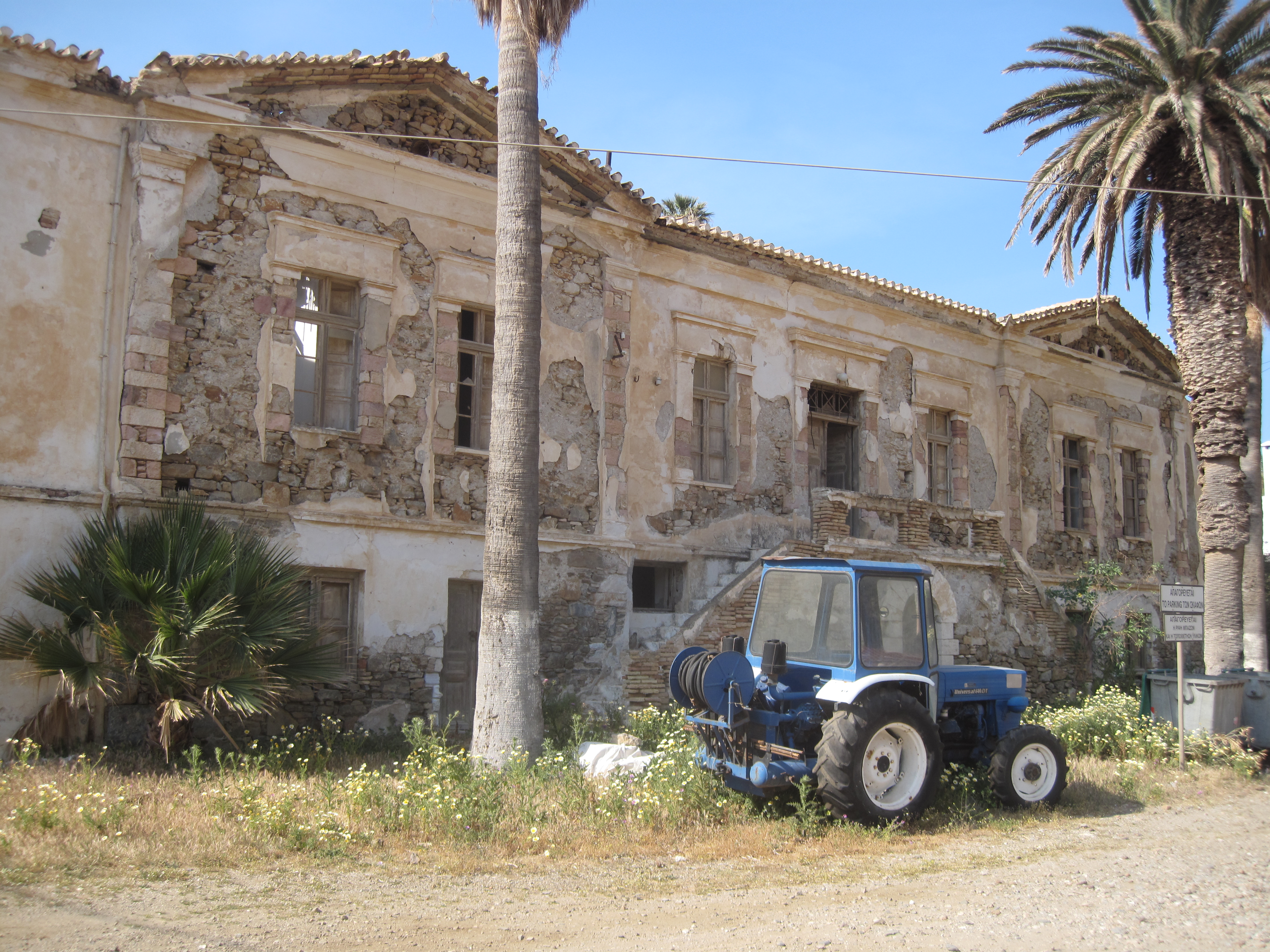 Neoclassical builing - Mega Livadi - Serifos - Greece